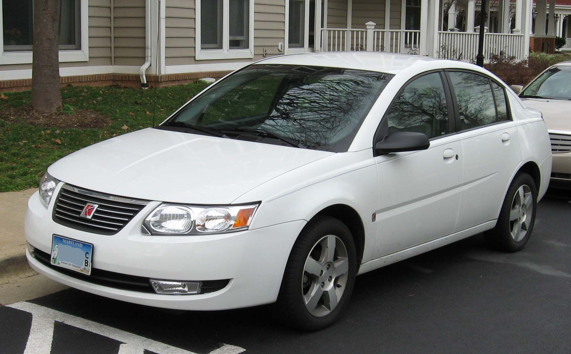 2005 Saturn Ion photographed in USA.